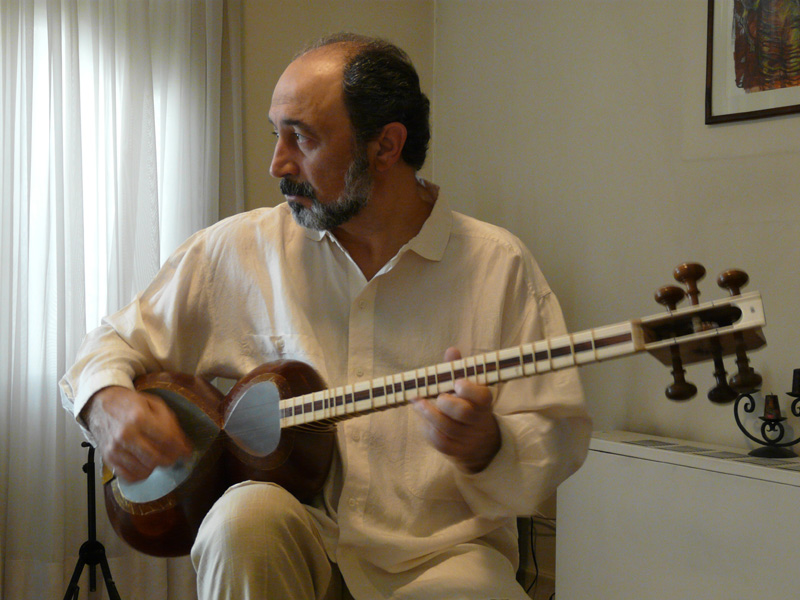 Dariush Talai playing Tar